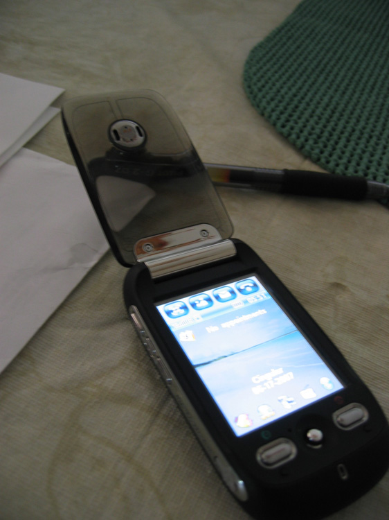 Picture of the Motorola MING A1200i.